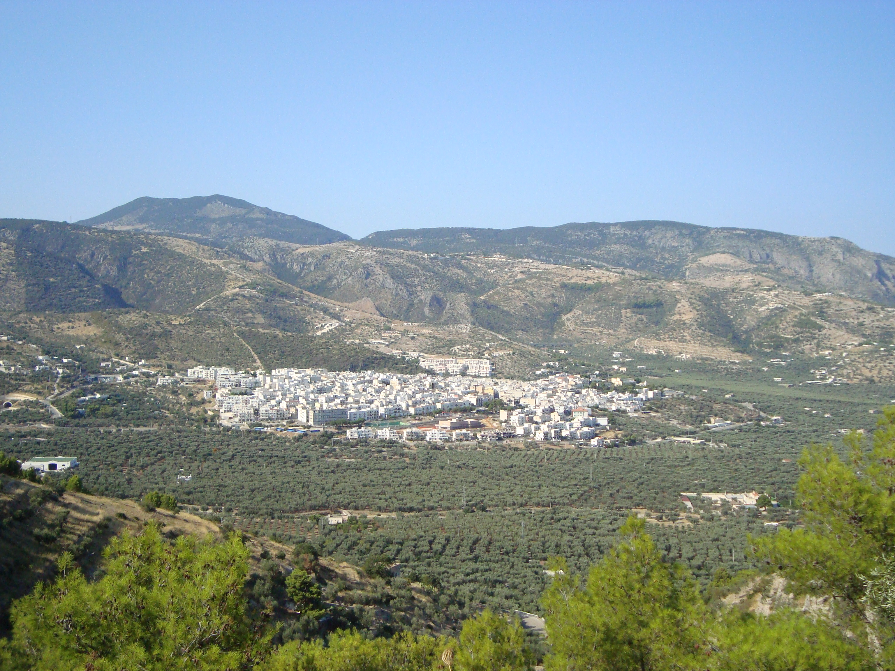 General view of Mattinata in the Gargano region, Italy